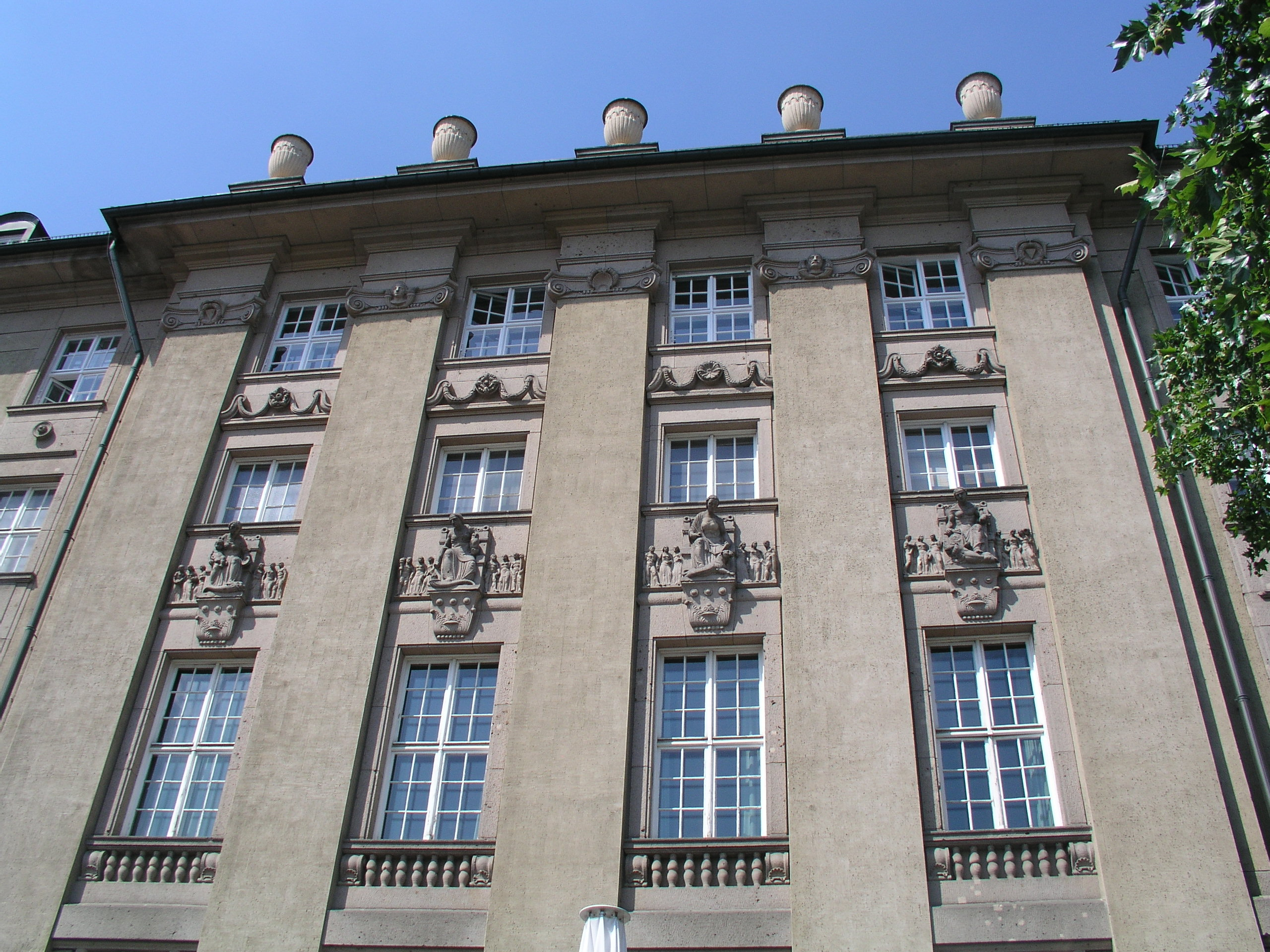 Detail from the Townhall (14)